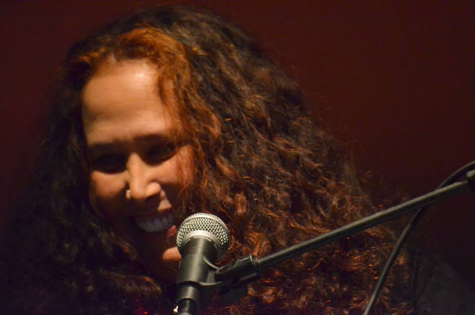 Carolyne Mas performing in Italy, 2014.